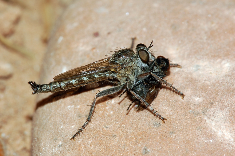 Machimus lacinulatus, male with prey, Bedarieux, Languedoc-Roussillon, France